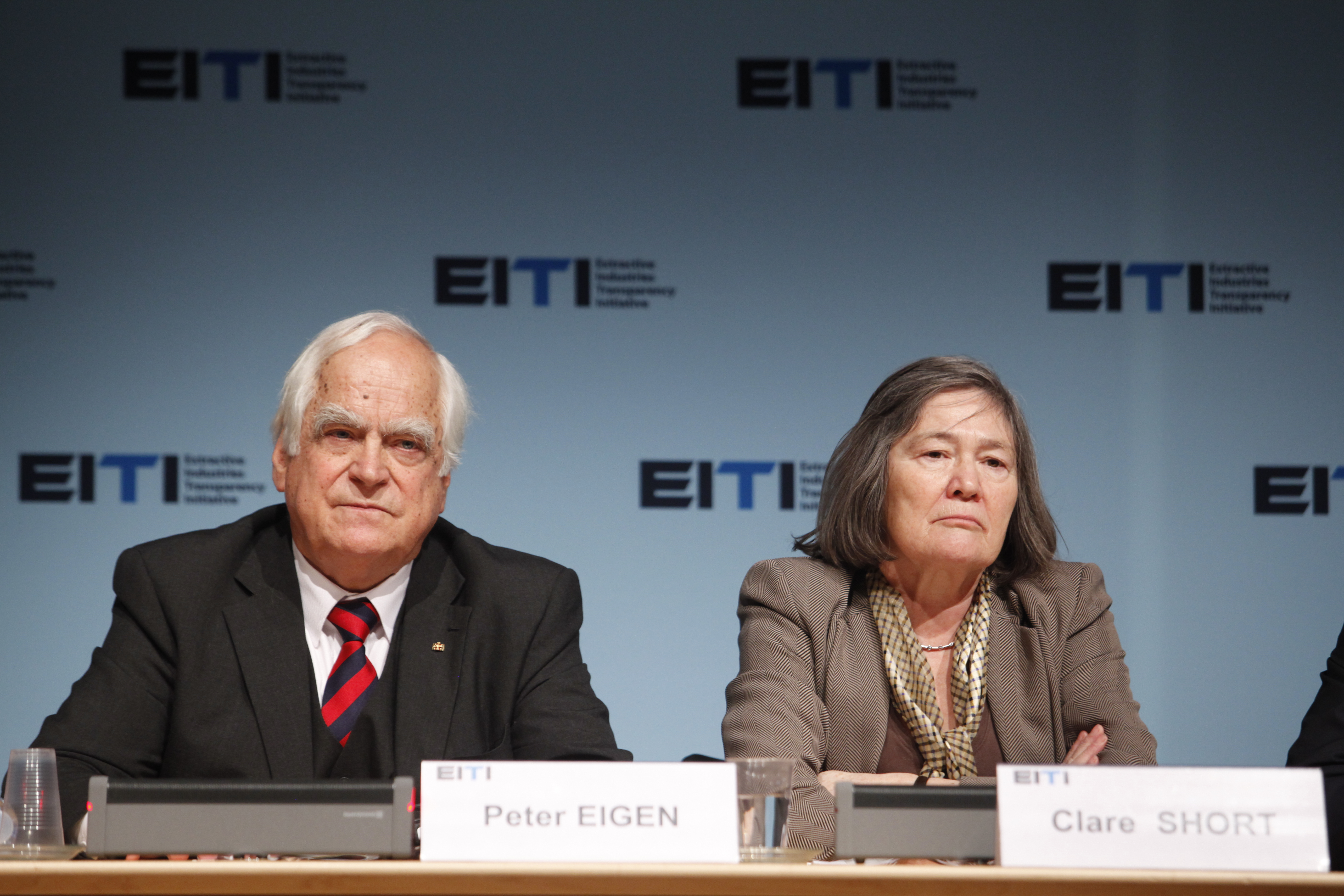 Peter Eigen and Clare Short (former and new Chair of the Board of EITI / Extractive Industries Transparency Initiative) at 5th EITI Global Conference, Paris 2011.